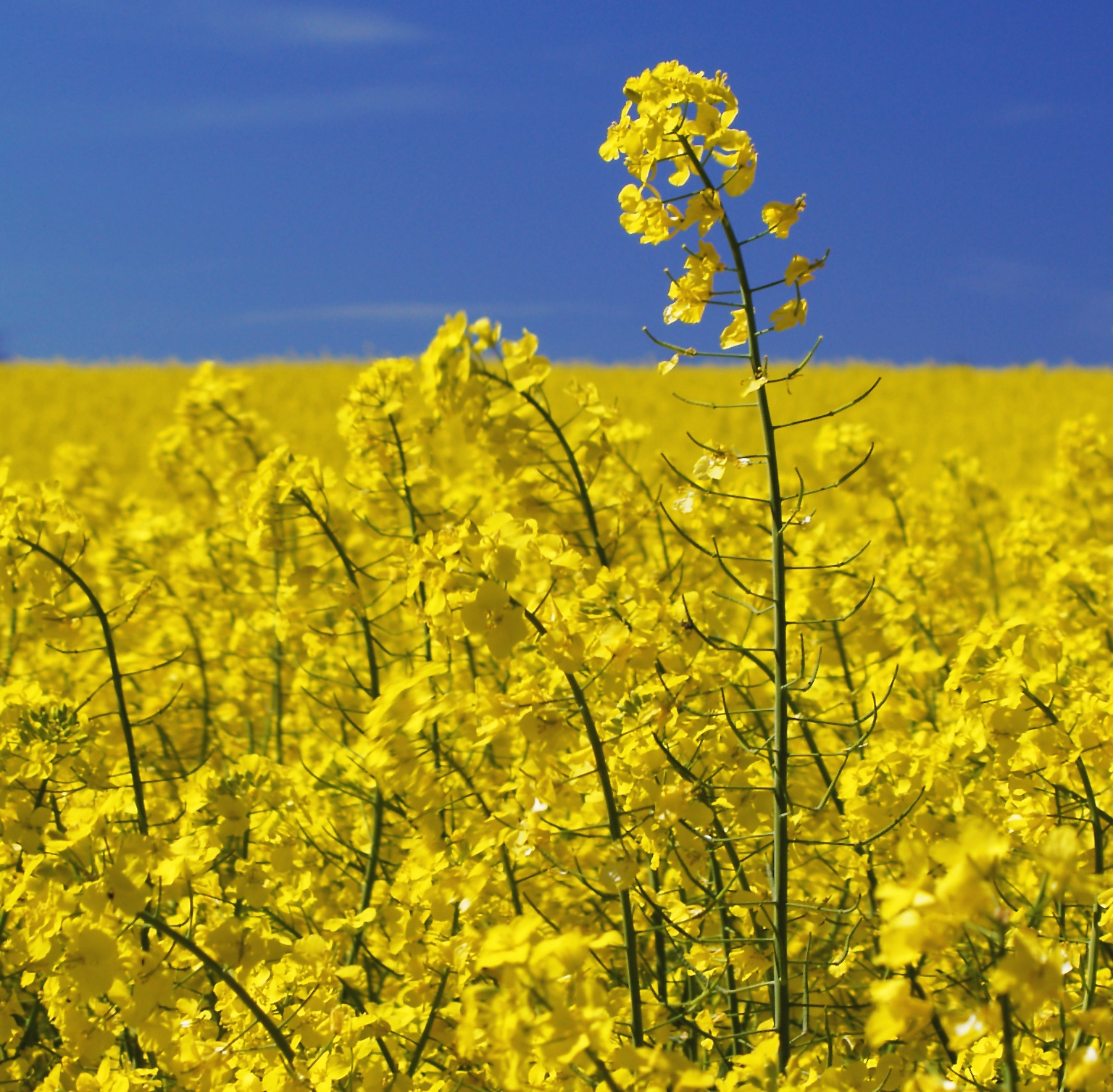 Blooming rapeseed (Brassica napus).